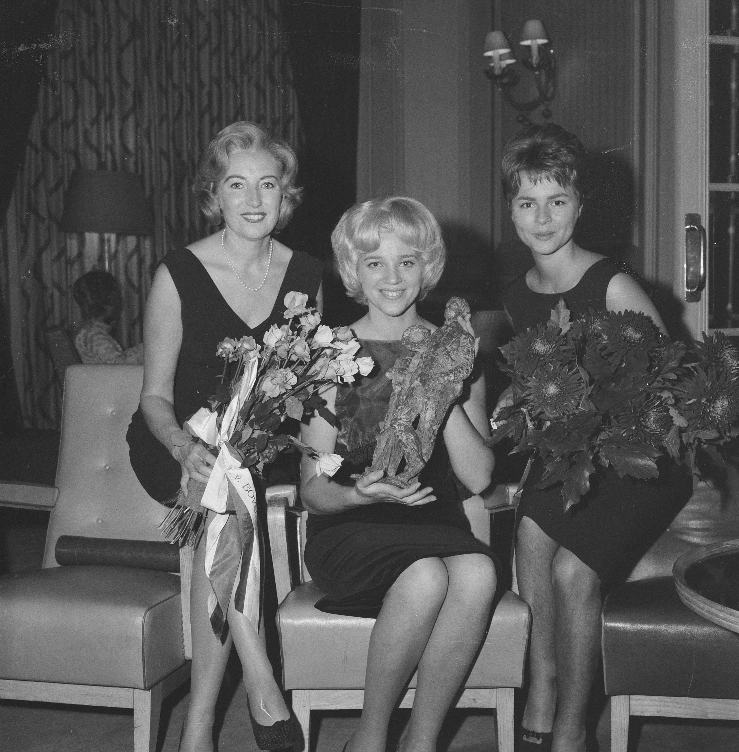 Grand Gala du Disque. From left to right: Vera Lynn, Ellen Craamer and Conny Froboes. Date: 29 September 1962